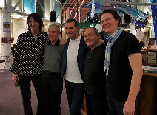 Original Iveys/Badfinger bass player Ron Griffiths with 2016 Badfinger